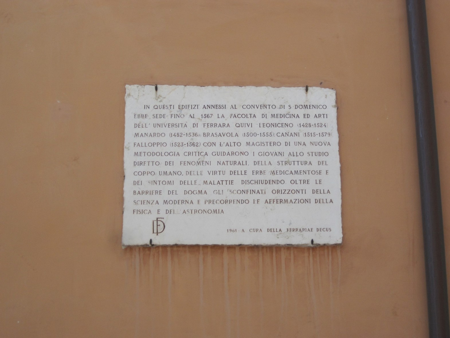 former barracks of the fascist period in Ferrara